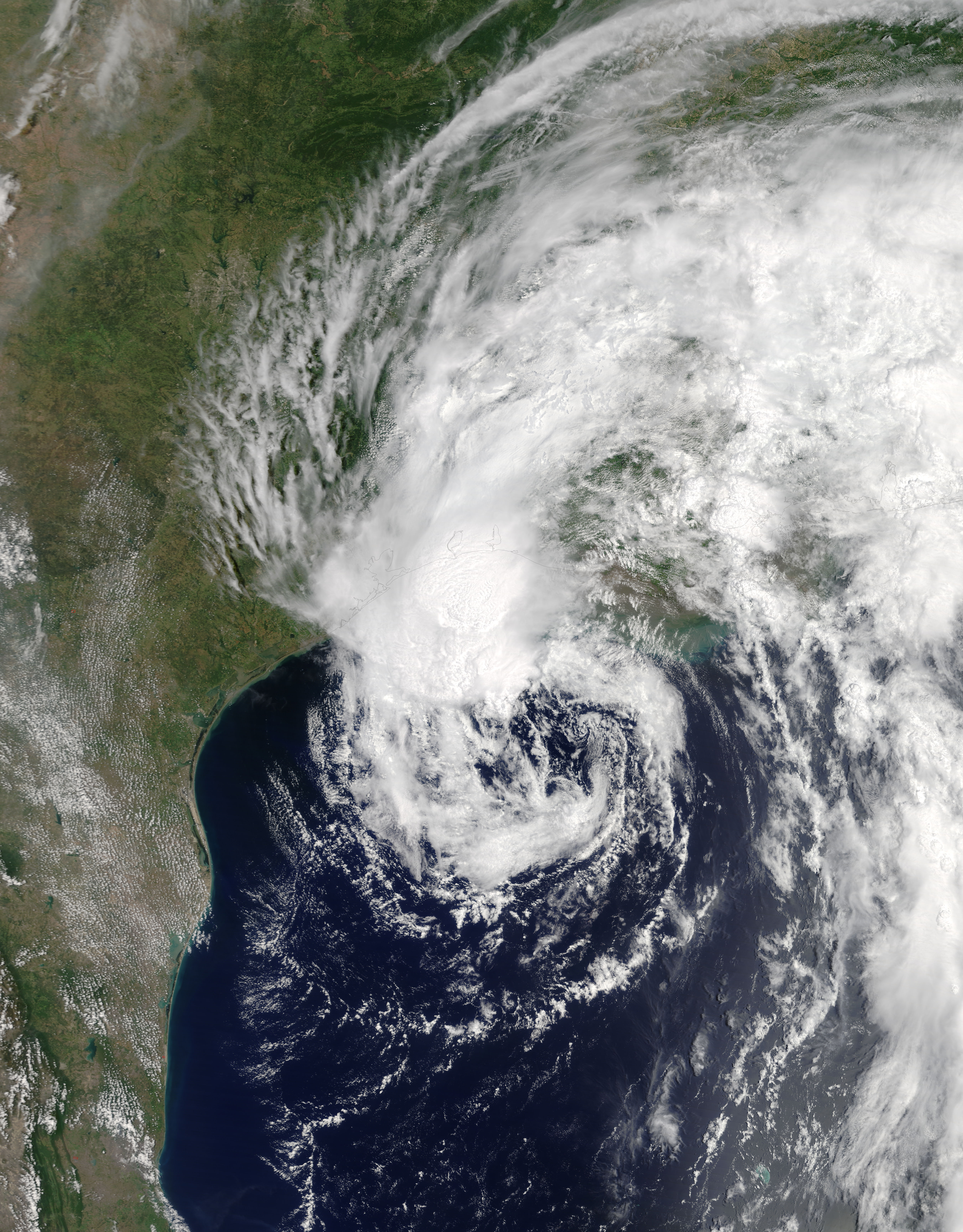 Tropical Storm Cindy (03L) over southeastern United States